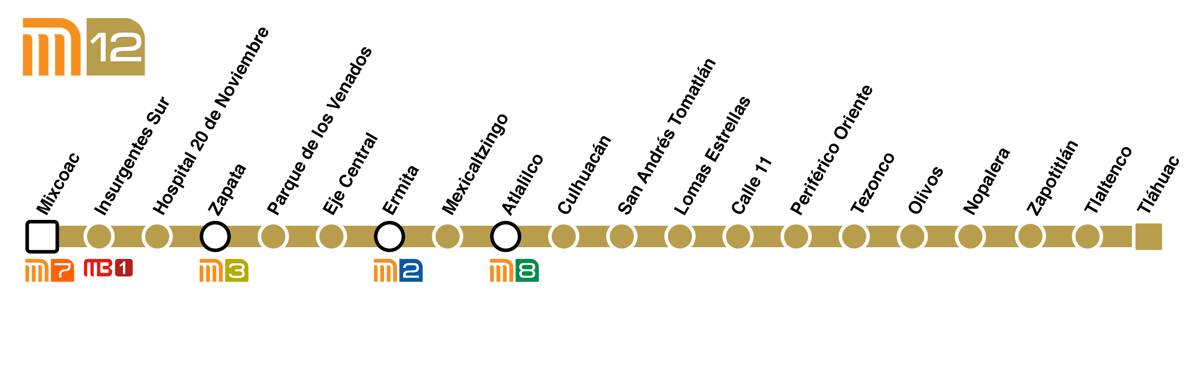 Mexico City Metro Line 12 plan, 2018